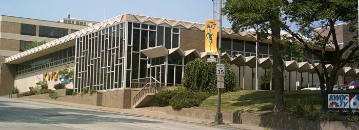 KWQC-TV's studios at 805 Brady Street, Davenport, Iowa; it opened in 1963.